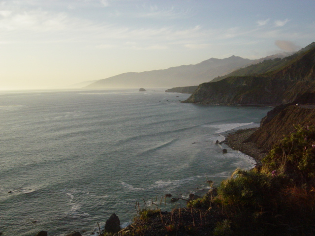 Big Sur, California